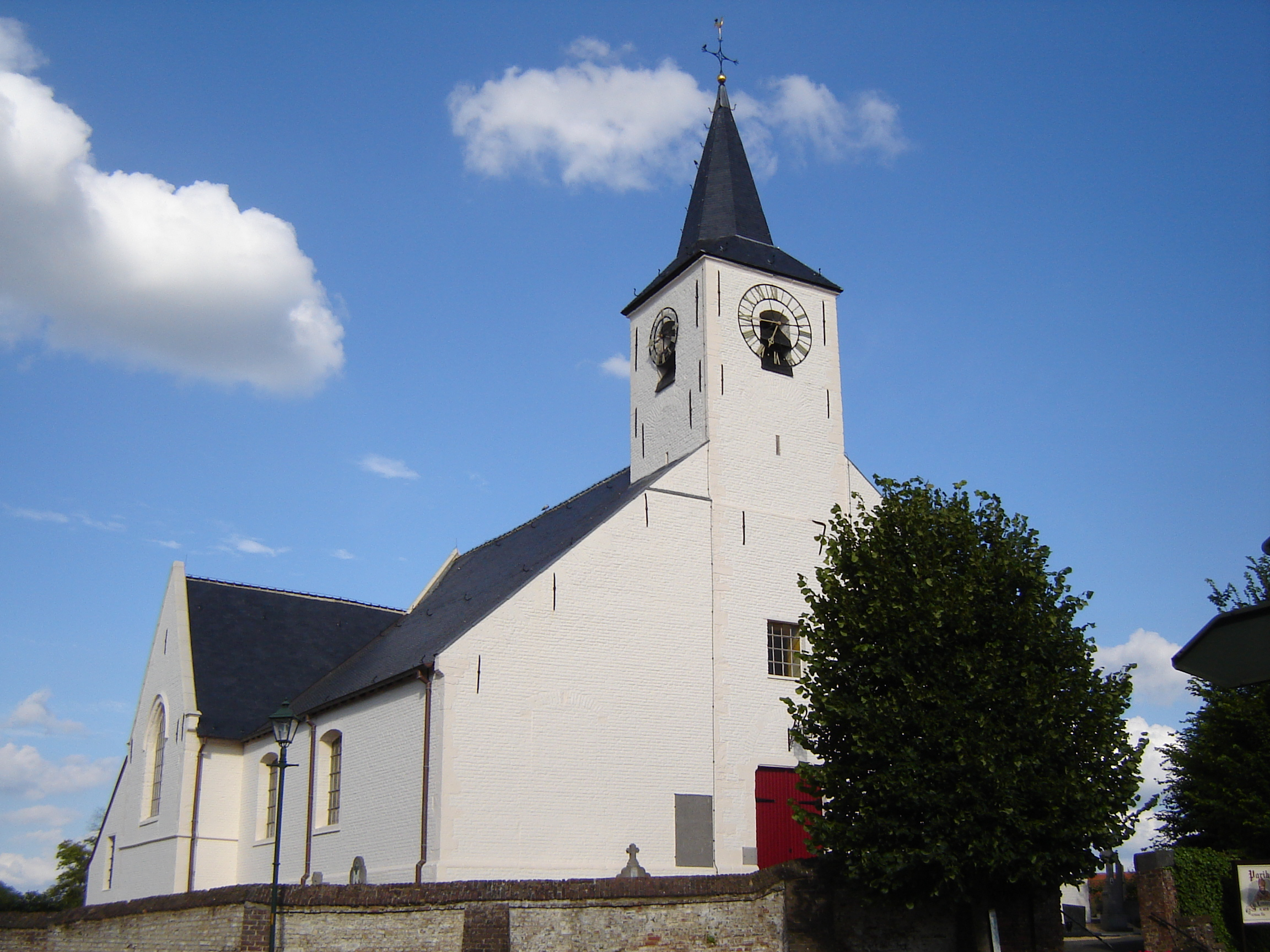 Church of Saint Lambert in Parike, Brakel, East Flanders, Belgium.